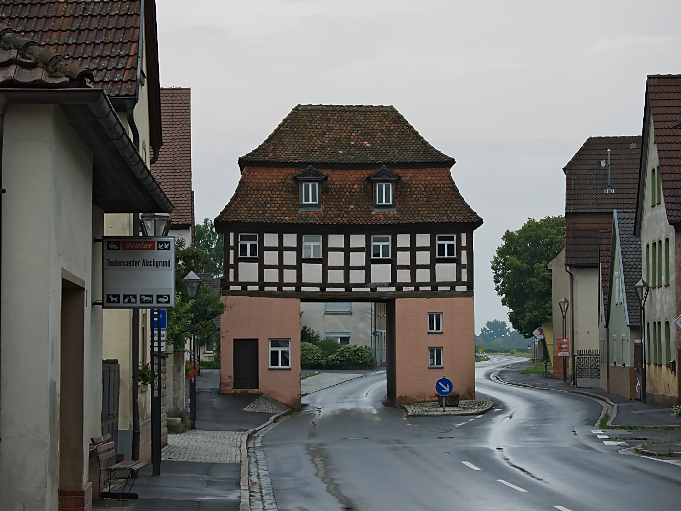 Gatebuilding in Uehlfeld (Middle Franconia)